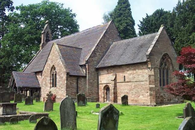 St John's parish church, Stretton, South Staffordshire, seen from the southeast